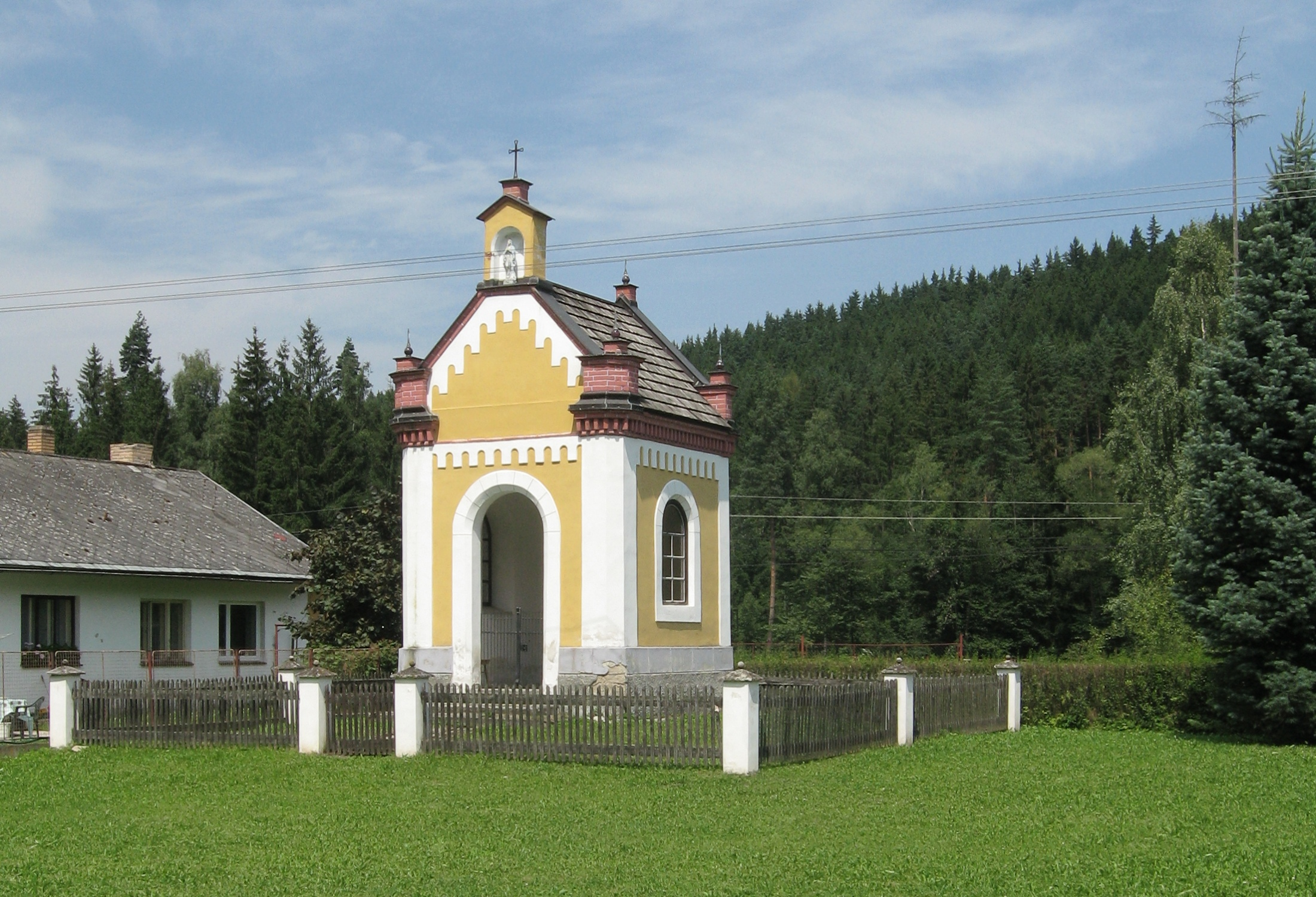 Chapel in Annín (Dlouhá Ves - part Annín, Klatovy district, Czech Republic).